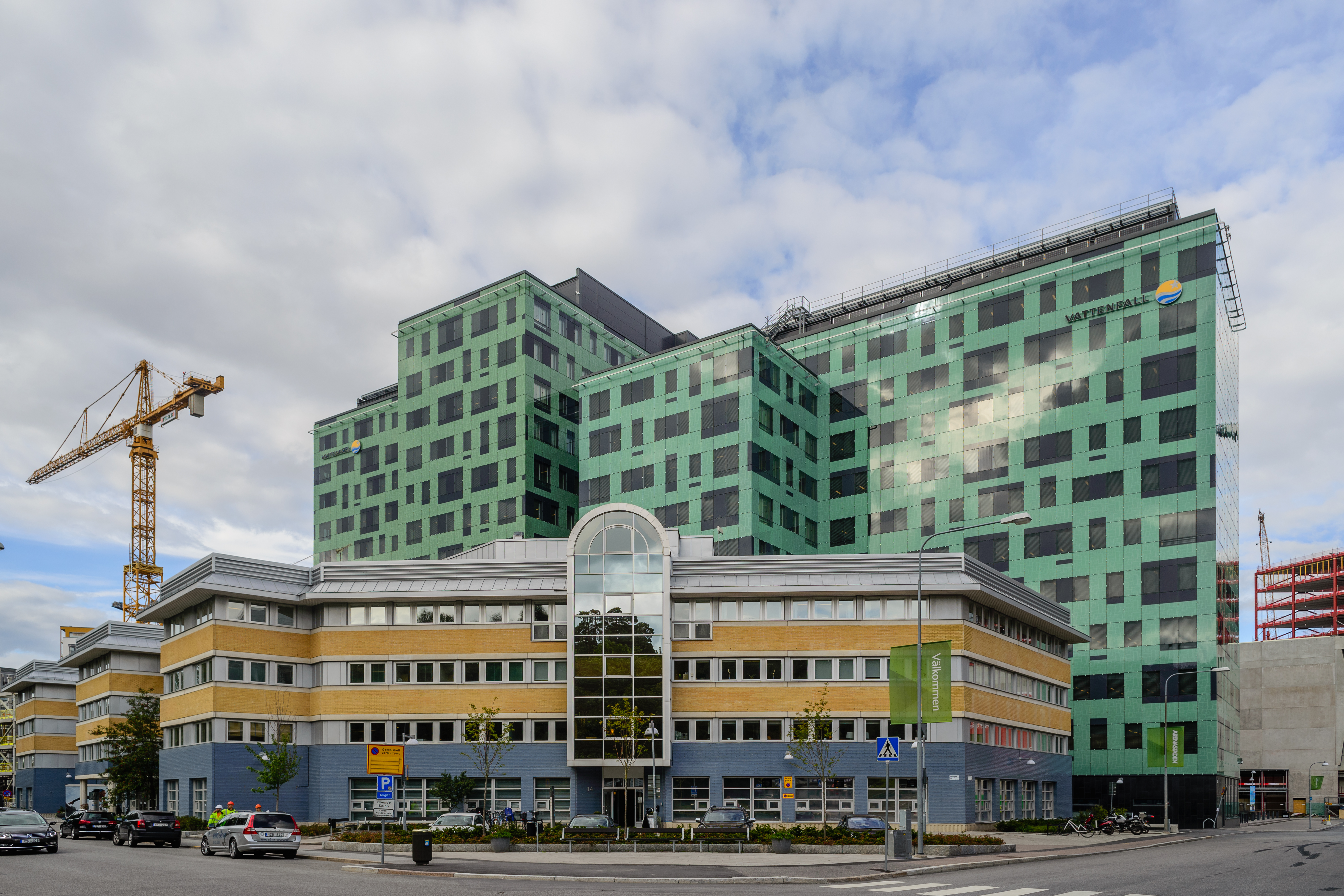 Vattenfall new corporate headquarter in Arenastaden. Solna (Stockholm), Sweden. Built 2009-12. Architects: Archus Arkitekter (building) and Tengbom arkitekter (interior).